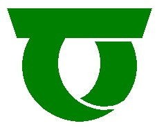 Shimonita Gunma chapter